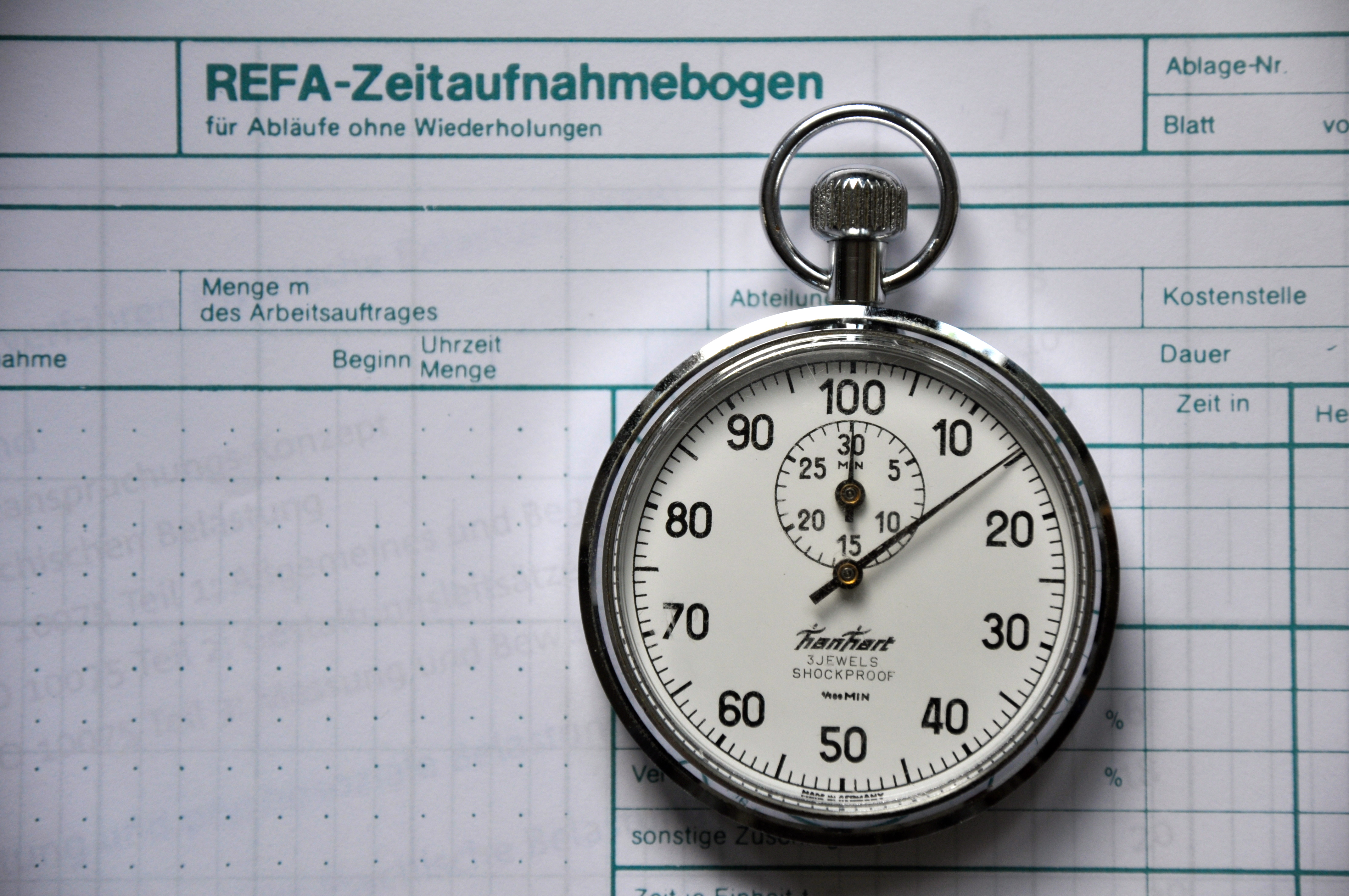 Time study stopwatch with 100 HM scale